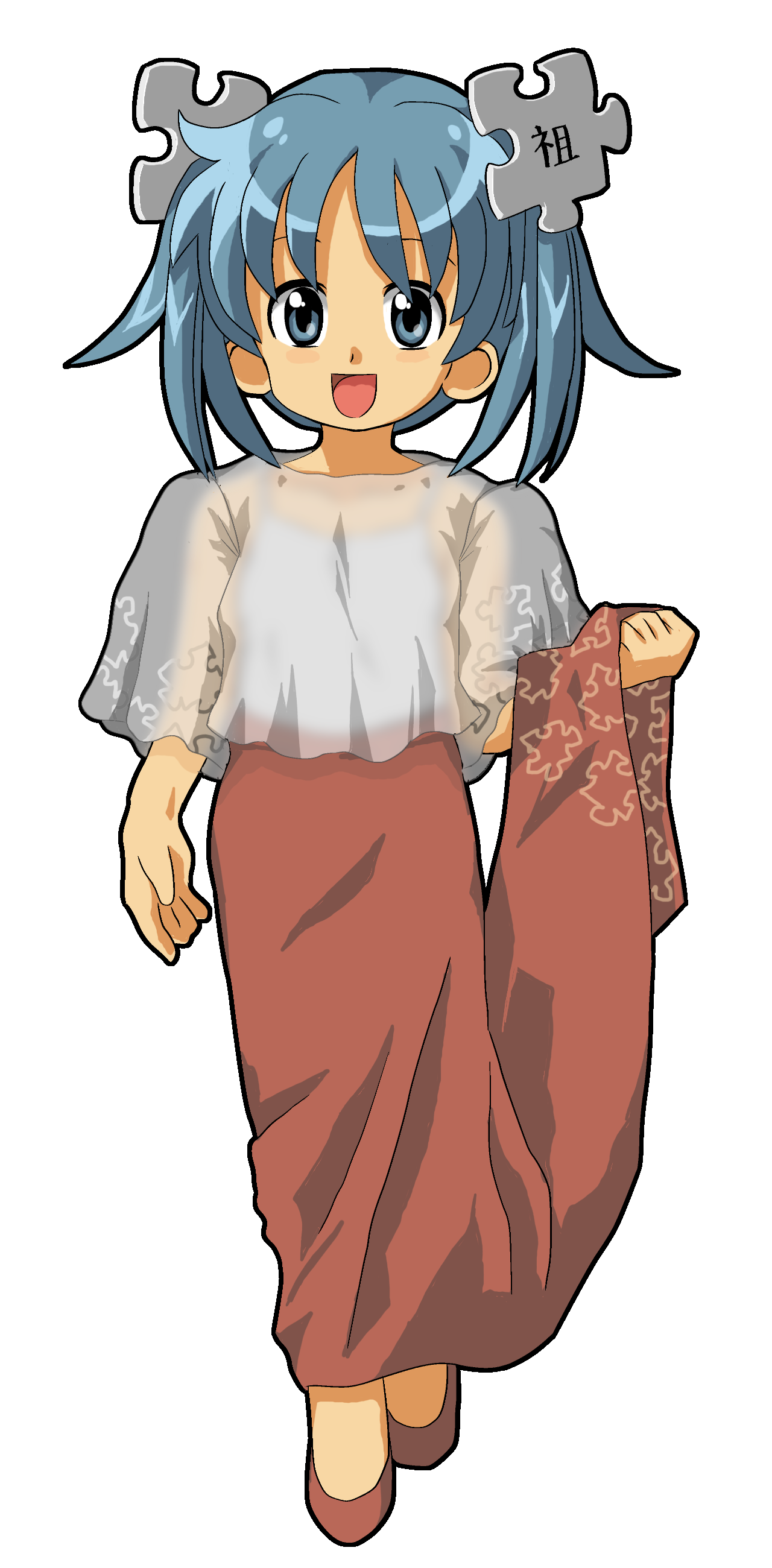 Wikipe-tan wearing baro't saya, the national dress of the Philippines.